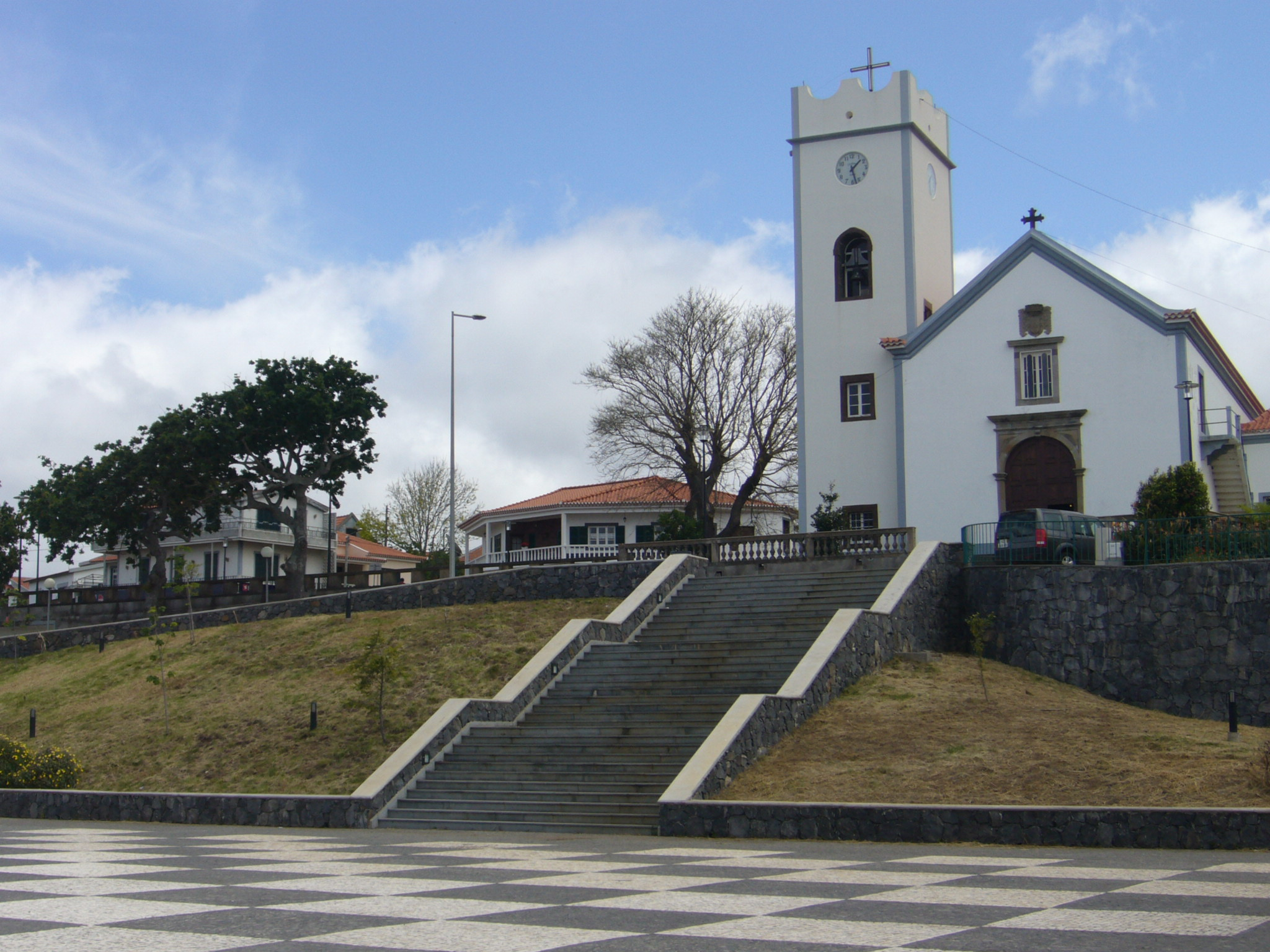 The church of Saint Peter at 32°48′39″N 17°14′53″W / 32.810862°N 17.247918°W in Ponta do Pargo, Madeira. Viewed from the plaza of the Civic Centre. Founded in 1690; this is probably a later re-building. Page on diocesan website. More images in this gallery.